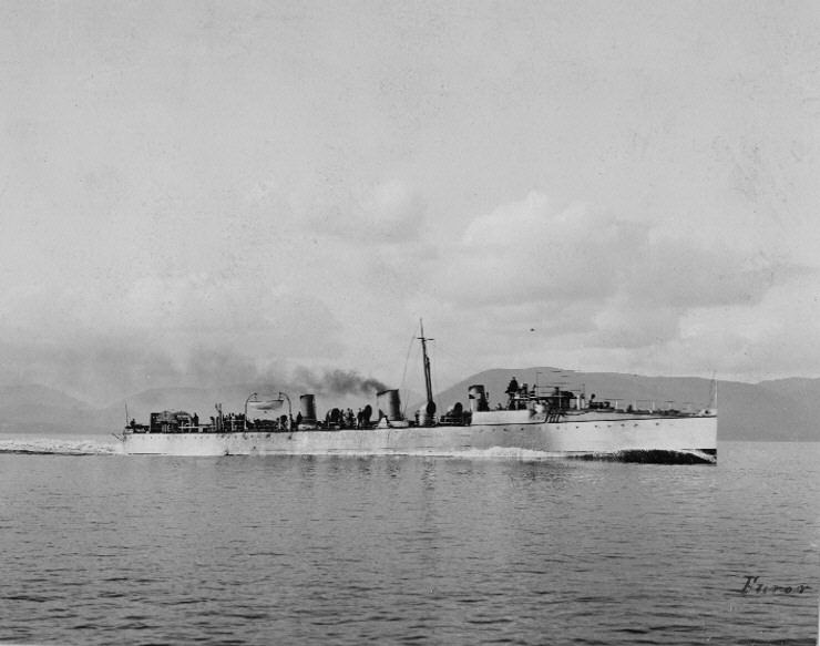 Running builder's trials in British waters, circa 1896. Furor and the similar Pluton were sunk in the Battle of Santiago, 3 July 1898.